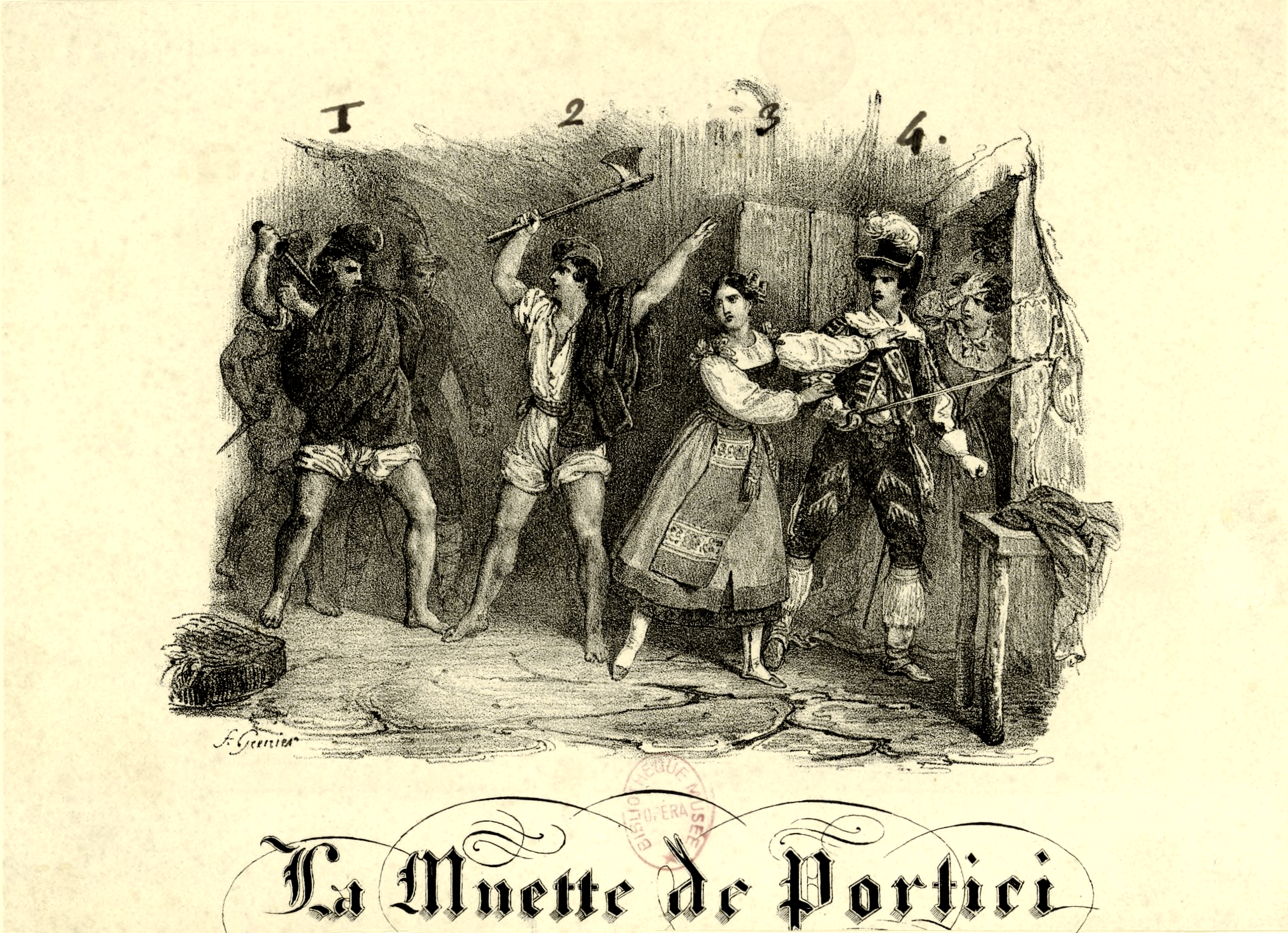 Engraving of La muette de Portici, an opera in five acts by Daniel Auber.